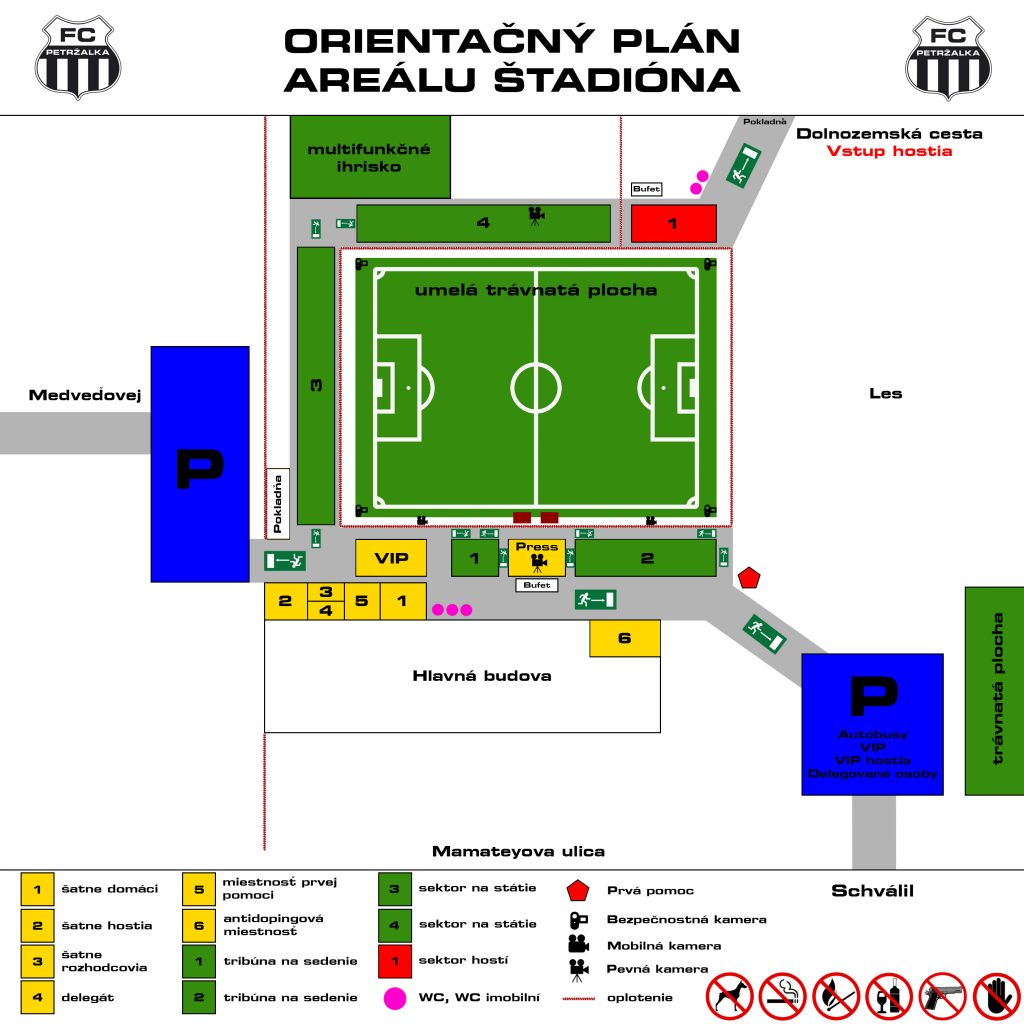 Orientačný plán športového areálu FC Petržalka